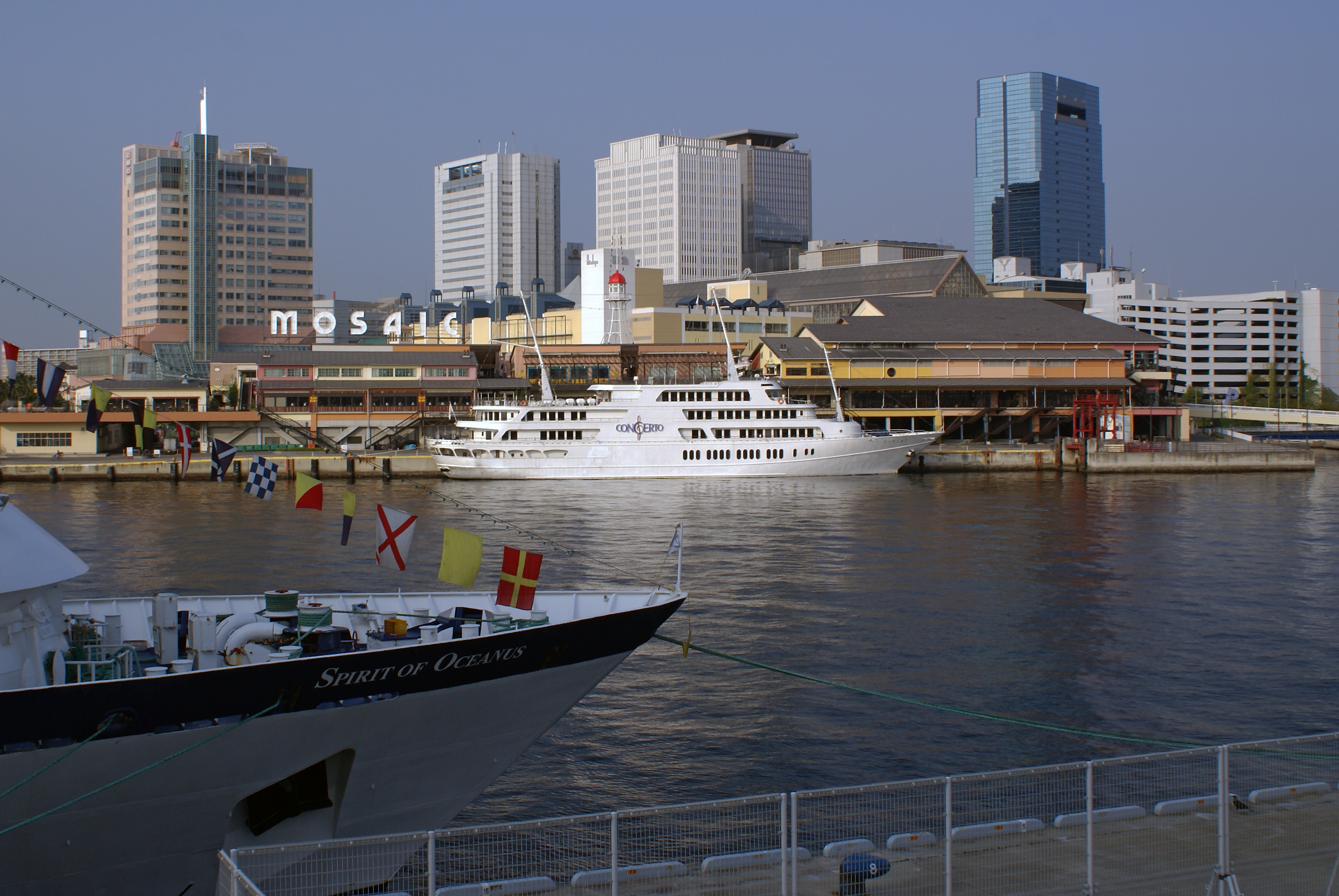 Harborland "Takahama-ganpeki" of the Kobe harbor ( Kobe, Hyogo prefecture, Japan)